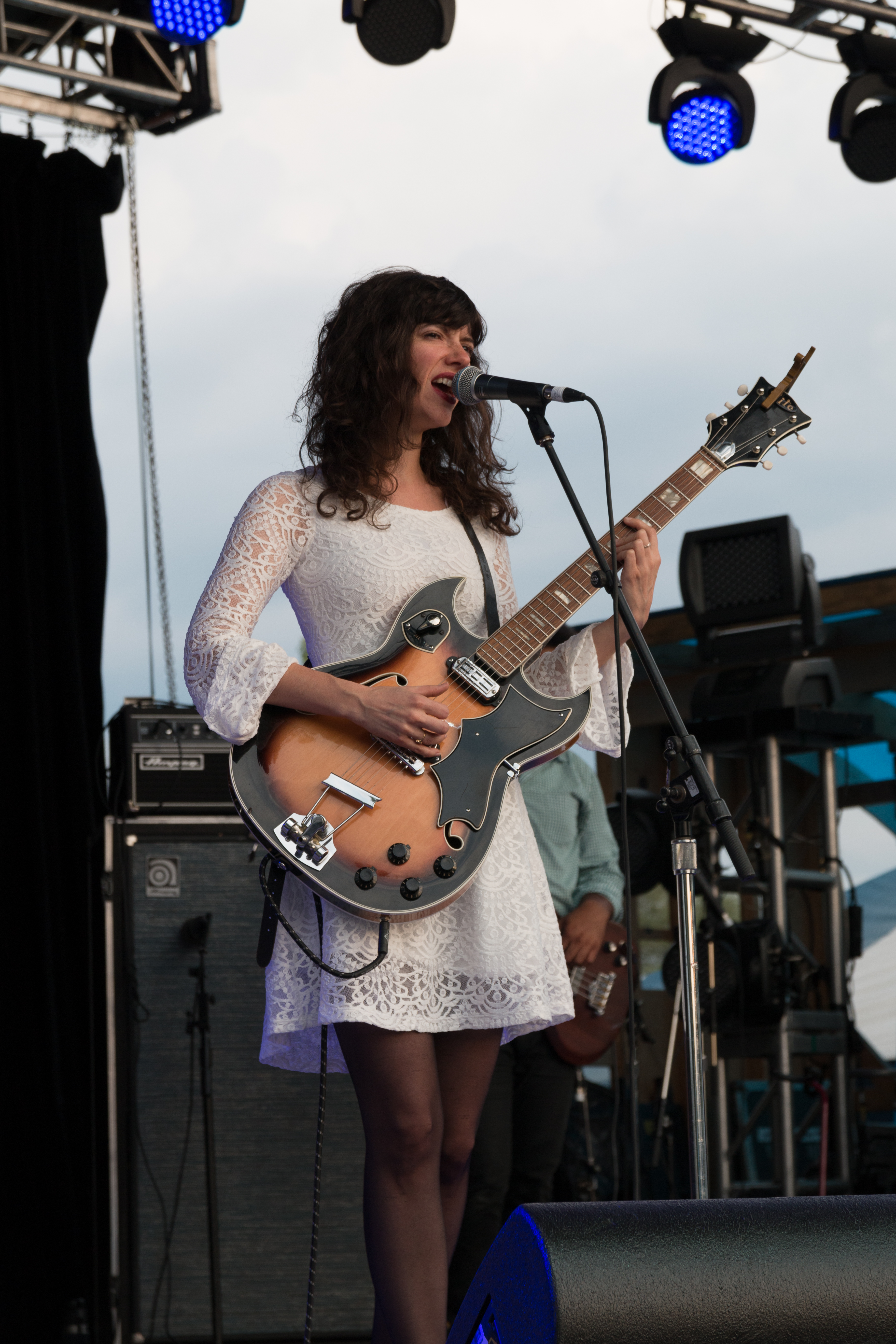 Natalie Prass performing at the 2015 Hillside Festival in Guelph, ON